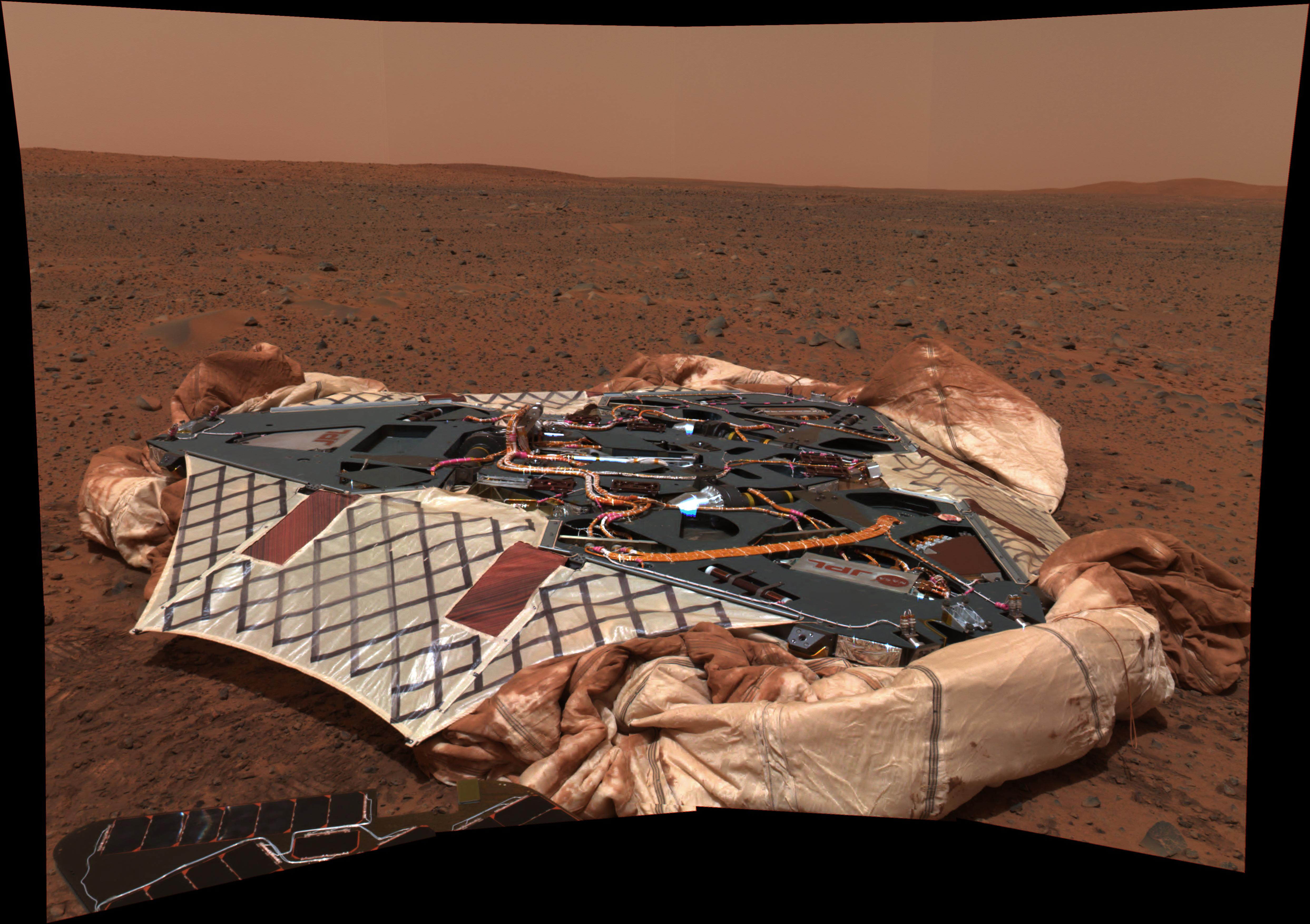 This image mosaic taken by the panoramic camera onboard the Mars Exploration Rover Spirit shows the rover's landing site, the Columbia Memorial Station, at Gusev Crater, Mars. This spectacular view may encapsulate Spirit's entire journey, from lander to its possible final destination toward the east hills. On its way, the rover will travel 250 meters (820 feet) northeast to a large crater approximately 200 meters (660 feet) across, the ridge of which can be seen to the left of this image. To the right are the east hills, about 3 kilometers (2 miles) away from the lander. The picture was taken on the 16th martian day, or sol, of the mission (Jan. 18/19, 2004). A portion of Spirit's solar panels appear in the foreground. Data from the panoramic camera's green, blue and infrared filters were combined to create this approximate true color image.